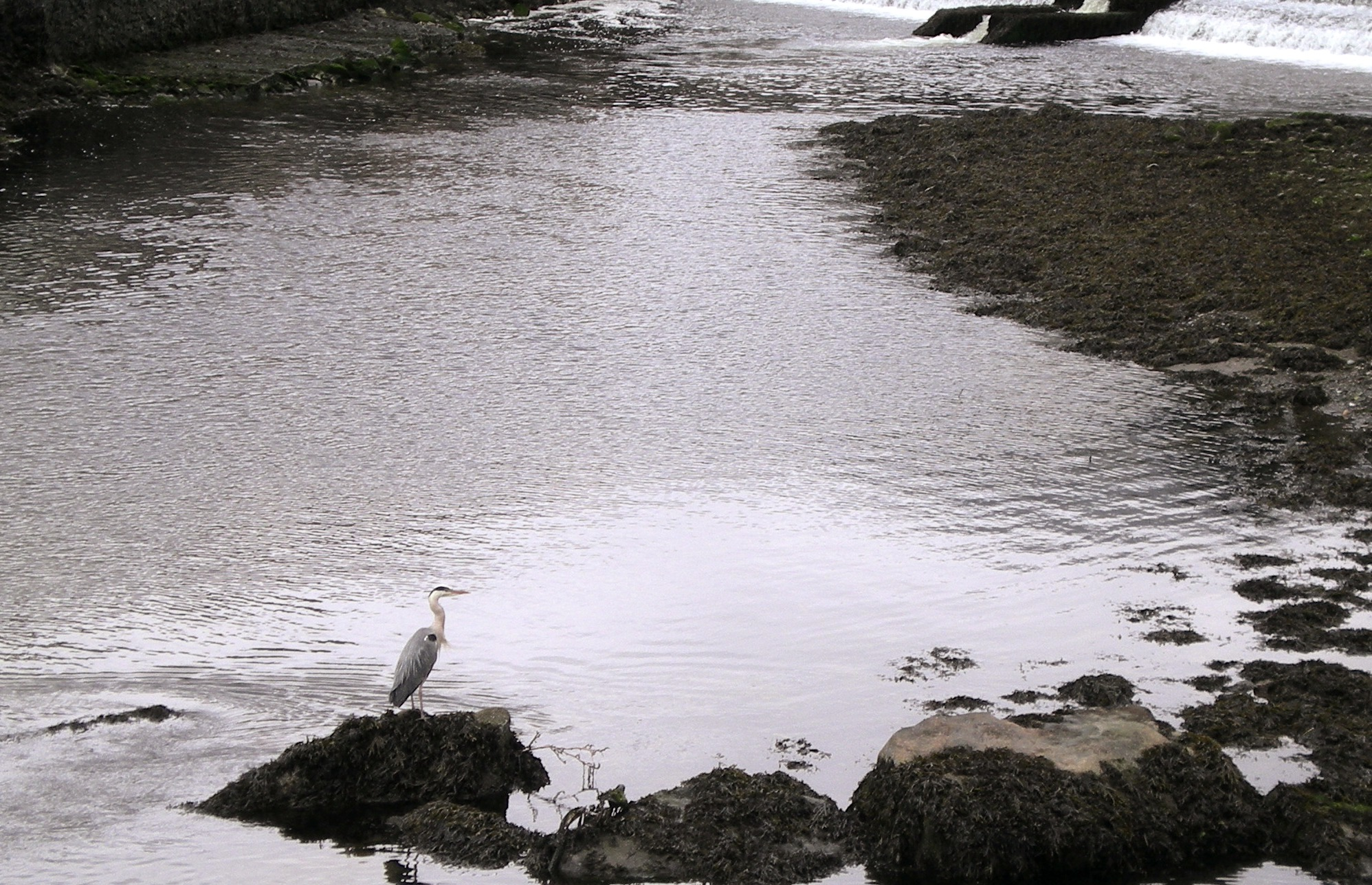 Grey heron fishing at the mouth of the Shimna River, Newcastle County Down, Northern Ireland